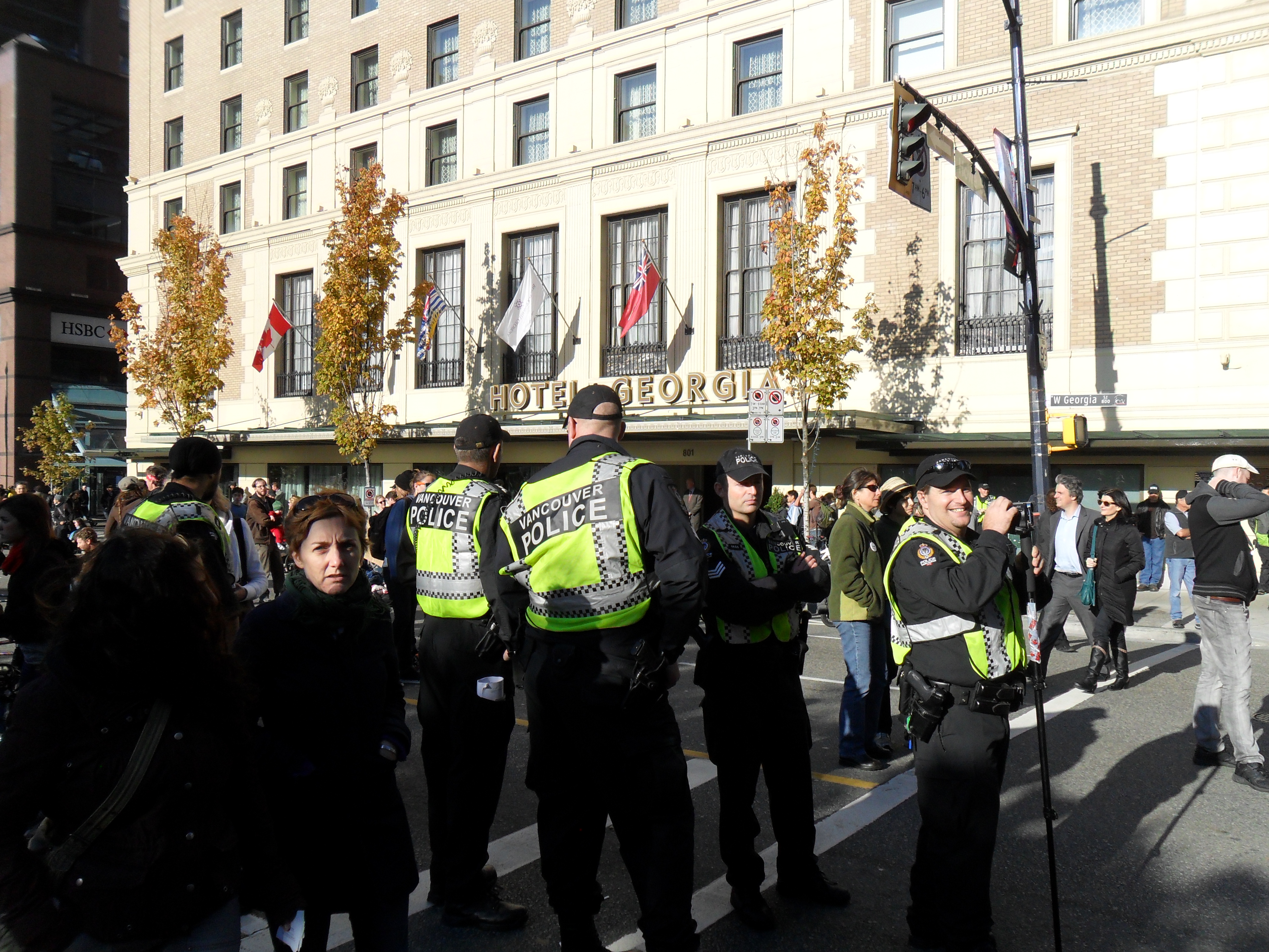 Vancouver Police at the Occupy Vancouver protest